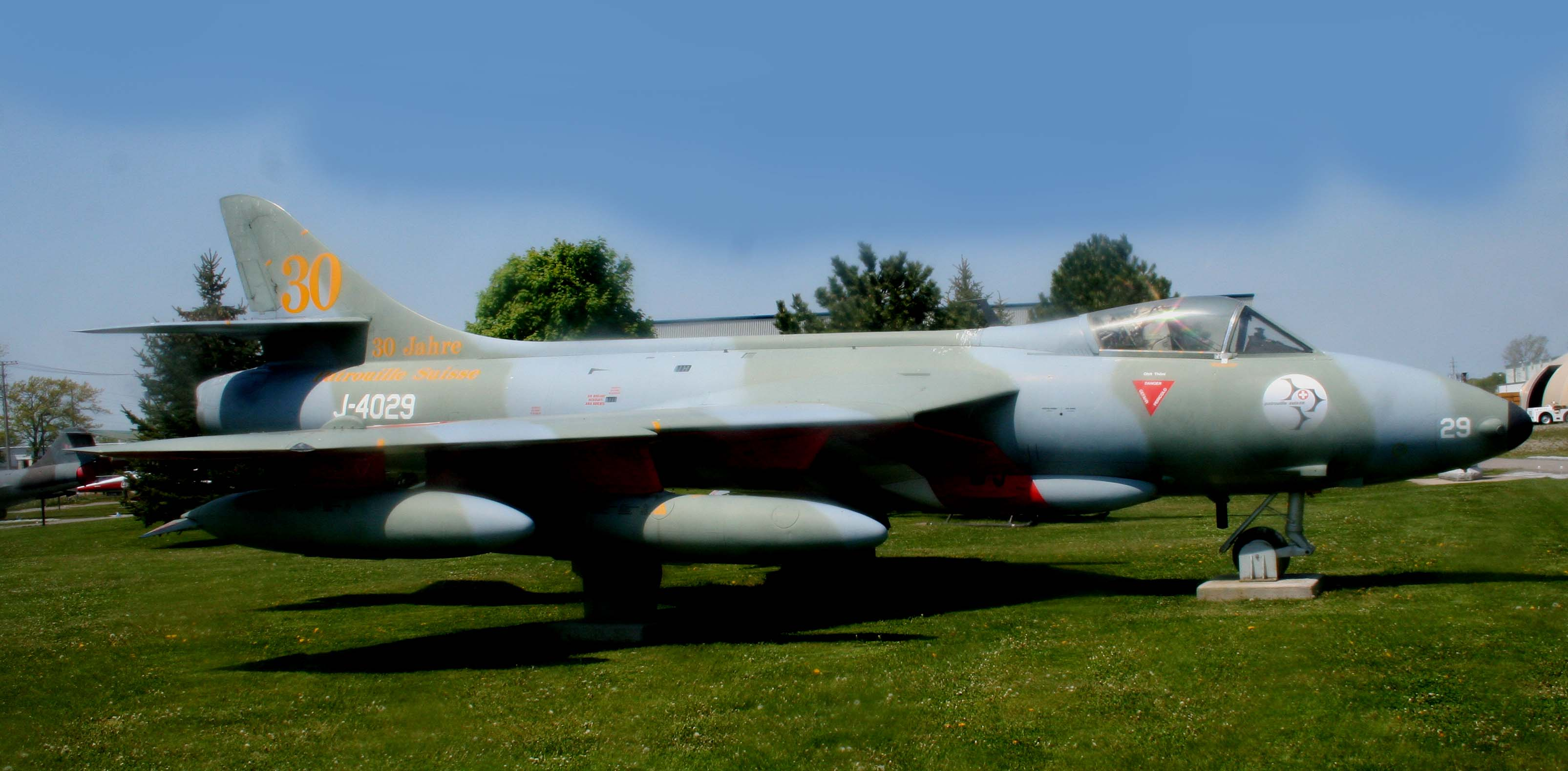 A former Swiss Air Force Hawker Hunter (J-4029), retired to service the 16 august 1990 and offered by Switzerland at the RCAF Museum, Trenton, Ontario, Canada, circa 2007. (Sticker of the Patrouille Suisse and special painting "30 Jahre Patrouille Suisse")